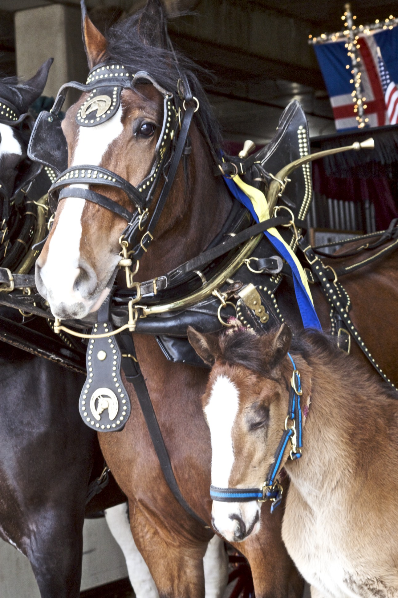 Clydesdale with foal at work